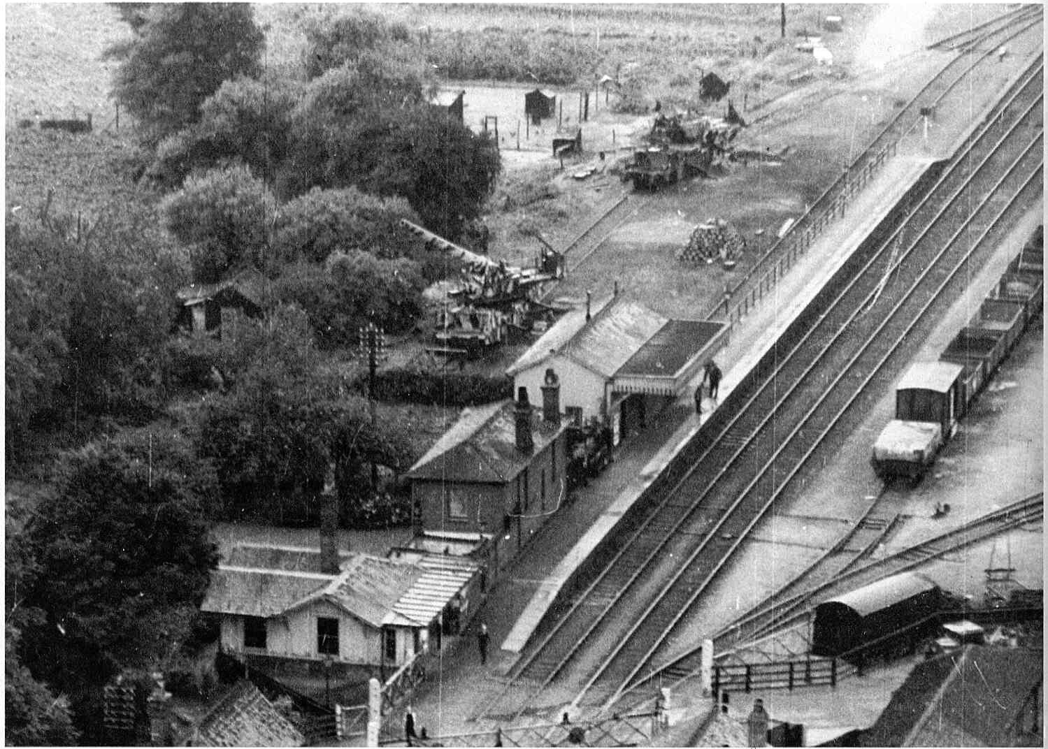 WWII photograph of trial of Hugh B. Cott's approach to military camouflage by countershading (based on Abbott Thayer). The photo shows two large rail-mounted guns. The lower one, highly visible, is camouflaged in normal 1940 British Army style; the upper one, nearly invisible, by Cott.